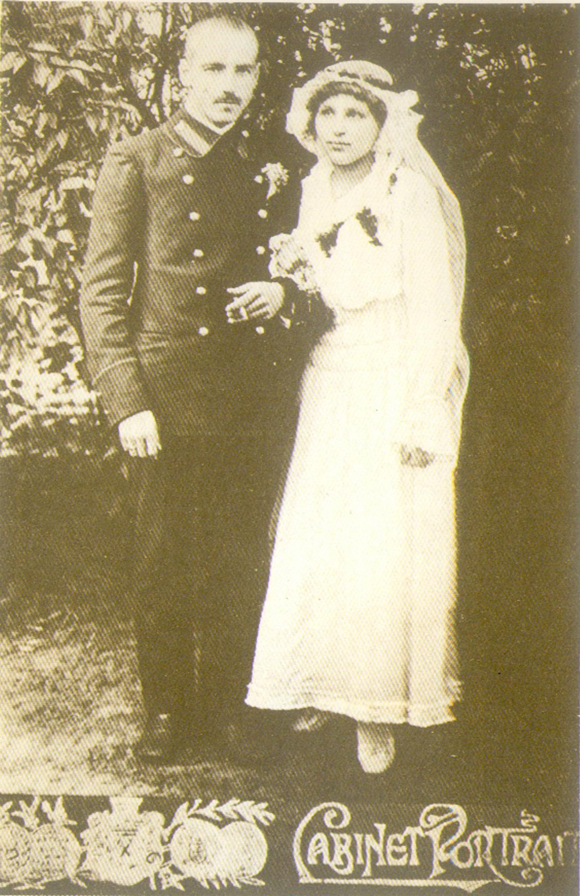 Belarusian poet Kanstancyja Bujło with her husband Vital Kalečyc Беларуская (тарашкевіца): Канстанцыя Буйло з мужам Віталём Адольфавічам Калечыцам у дзень шлюбу 7 чэрвеня 1916